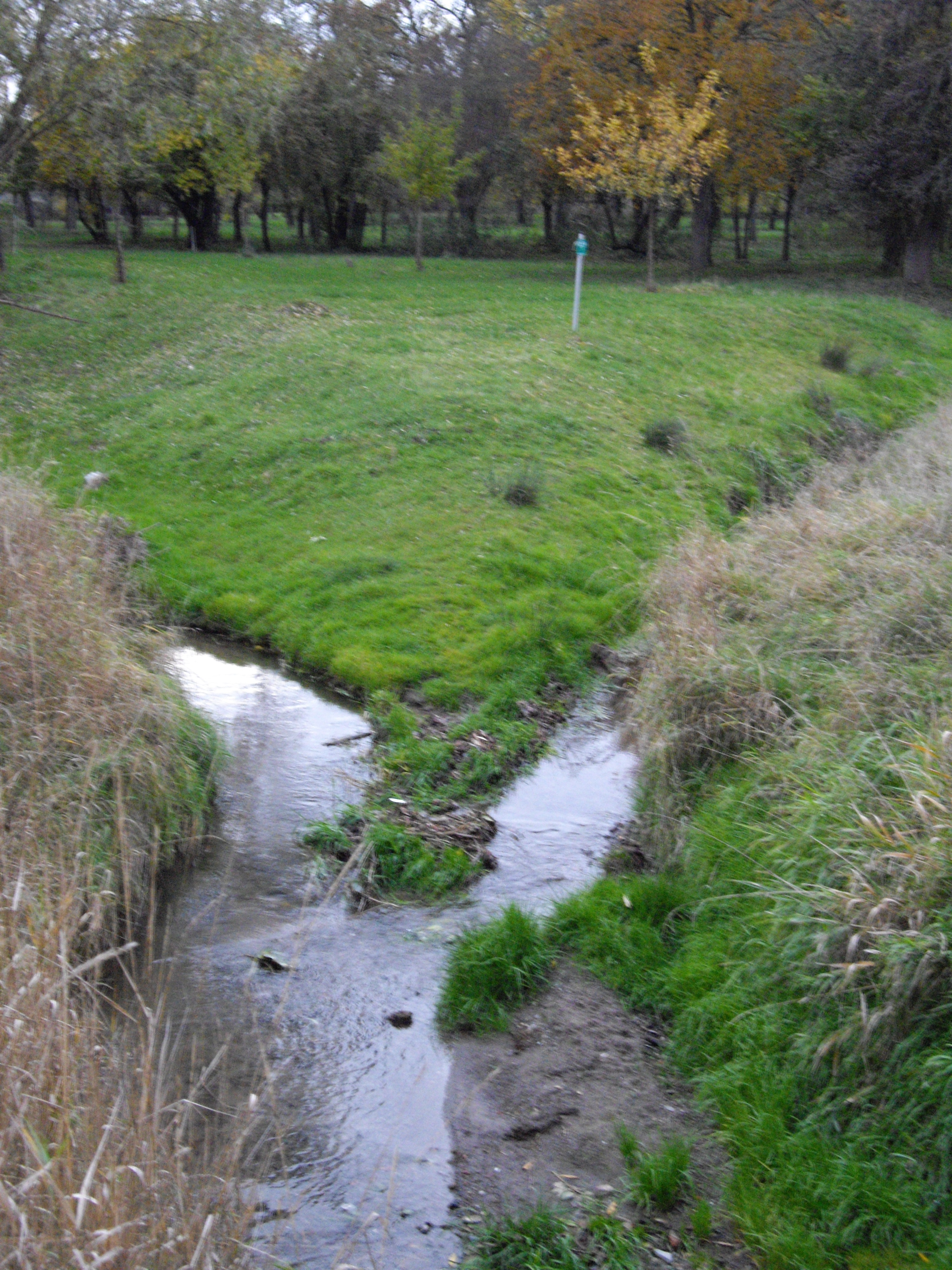 The mouth of the "Lobach" into the river Schlenze near Zabenstedt